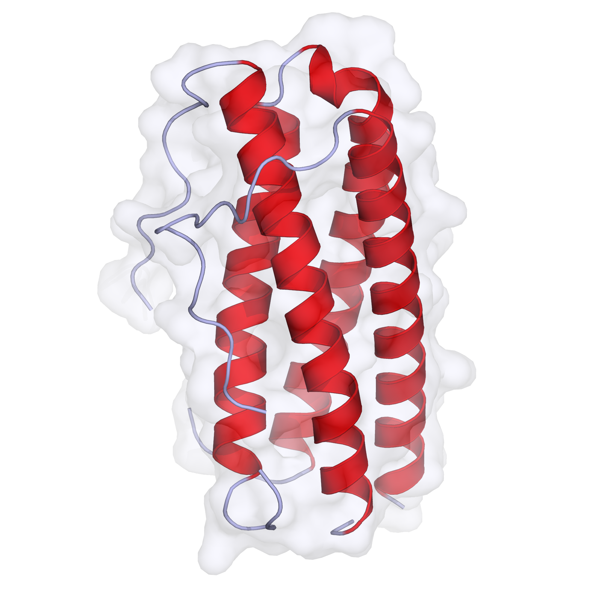 The structure of interleukin 11 based on 4MHL[1].